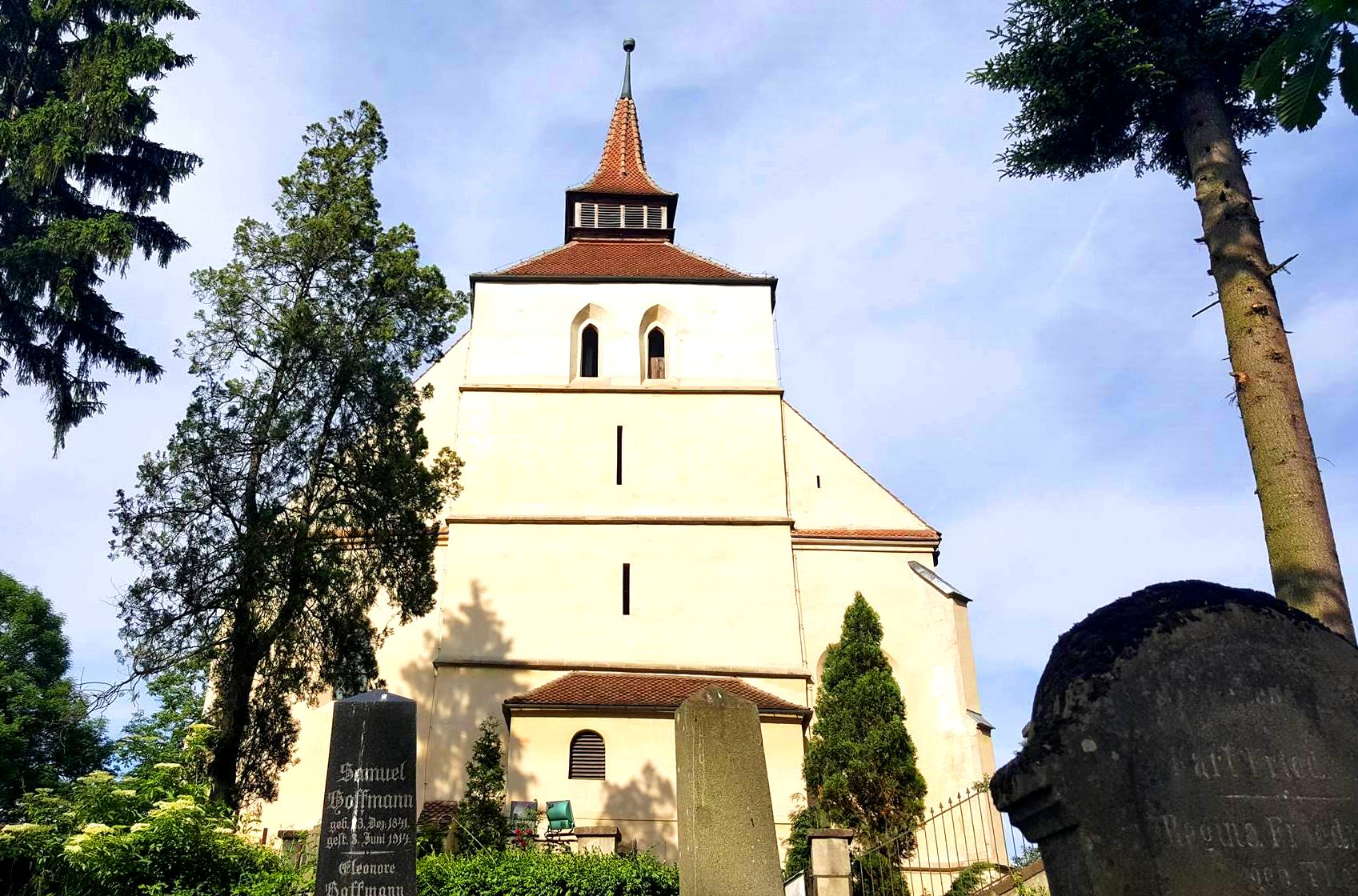 the exterior facade of the church on the hill, with a particular on the cemetry located in front of it